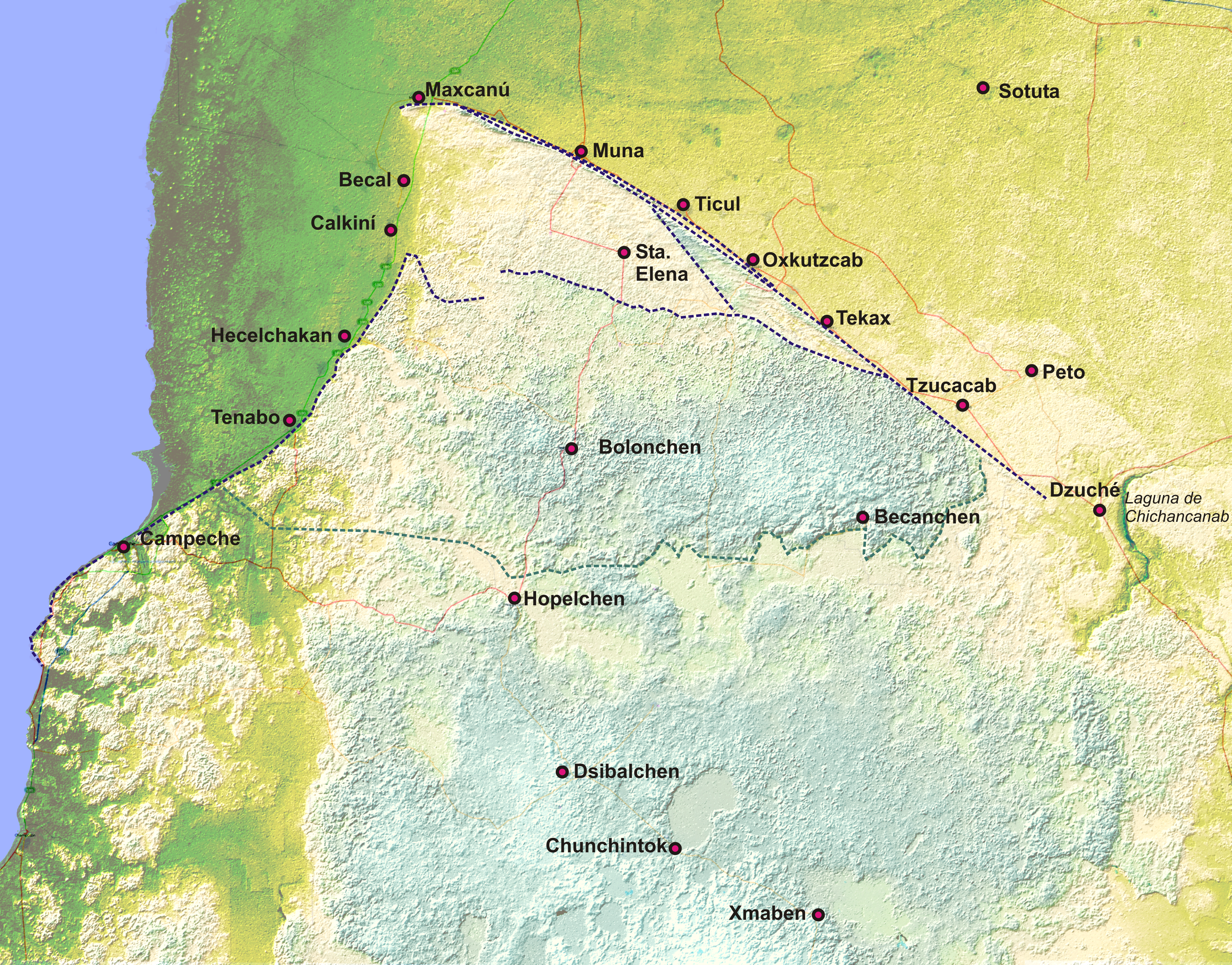 The Puuc topographic region, Yucatan peninsula, Mexico.